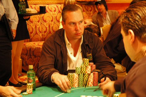 Joe Beevers at the WPT Five Star Poker Classic. in 2005